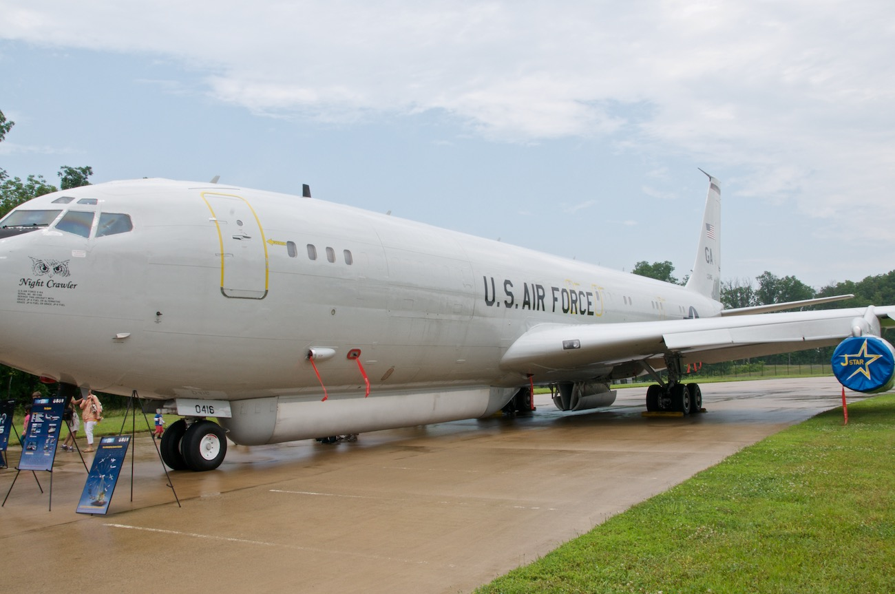 Northrop Grumman tE-8A Joint Surveillance Target Attack Radar System (JSTARS). This aircraft, serial number 86-0416, has the nickname "Night Crawler" and was the first aircraft converted, now in use as a trainer. Photo taken at the 2009 Become a Pilot Family Day at the Smithsonian National Air and Space Museum Udvar-Hazy Center.